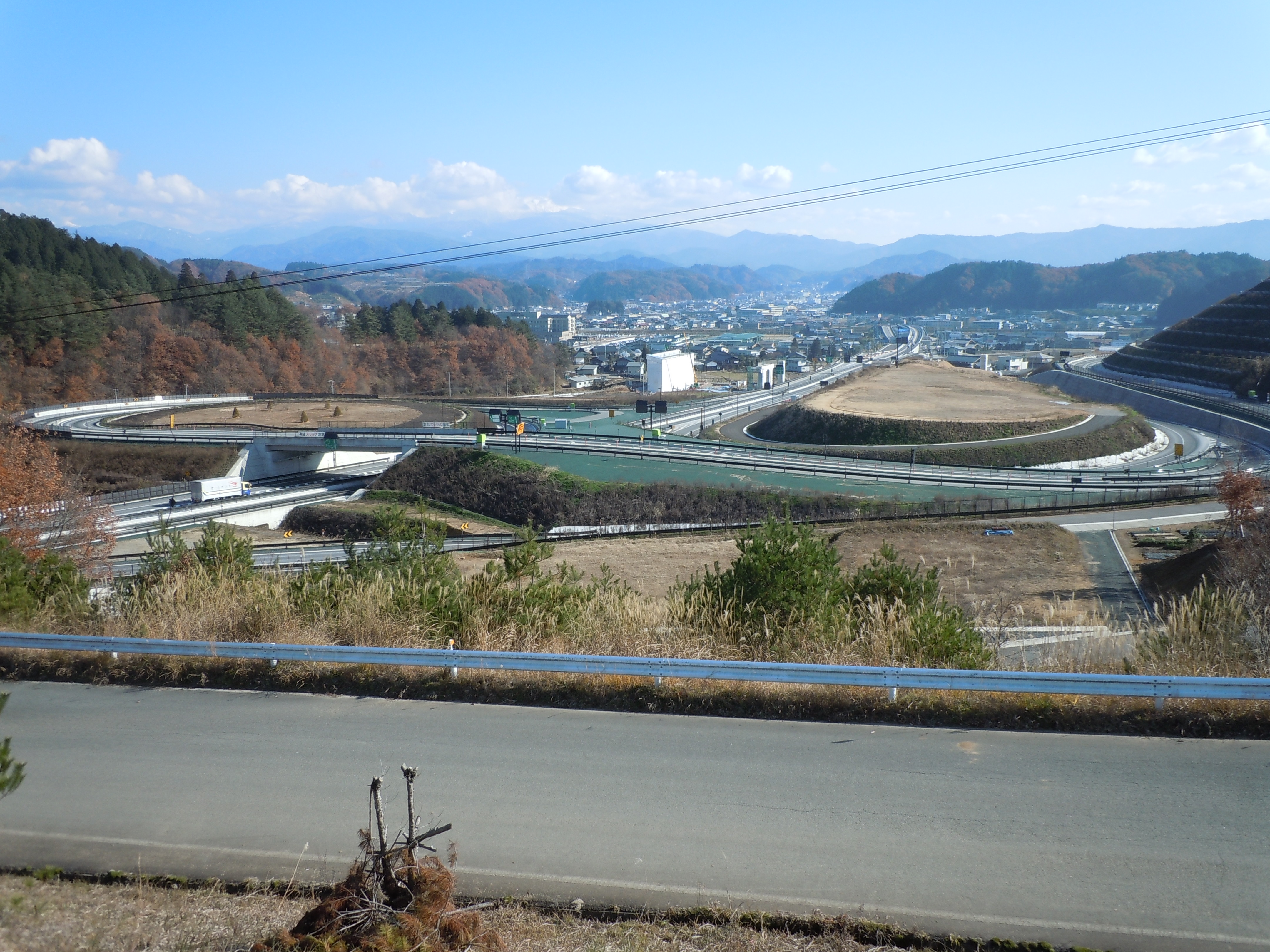 Takayama Interchange on the Chubu-Jukan Expressway in Takayama City, Gifu Prefecture, Japan. Facing towards central Takayama City